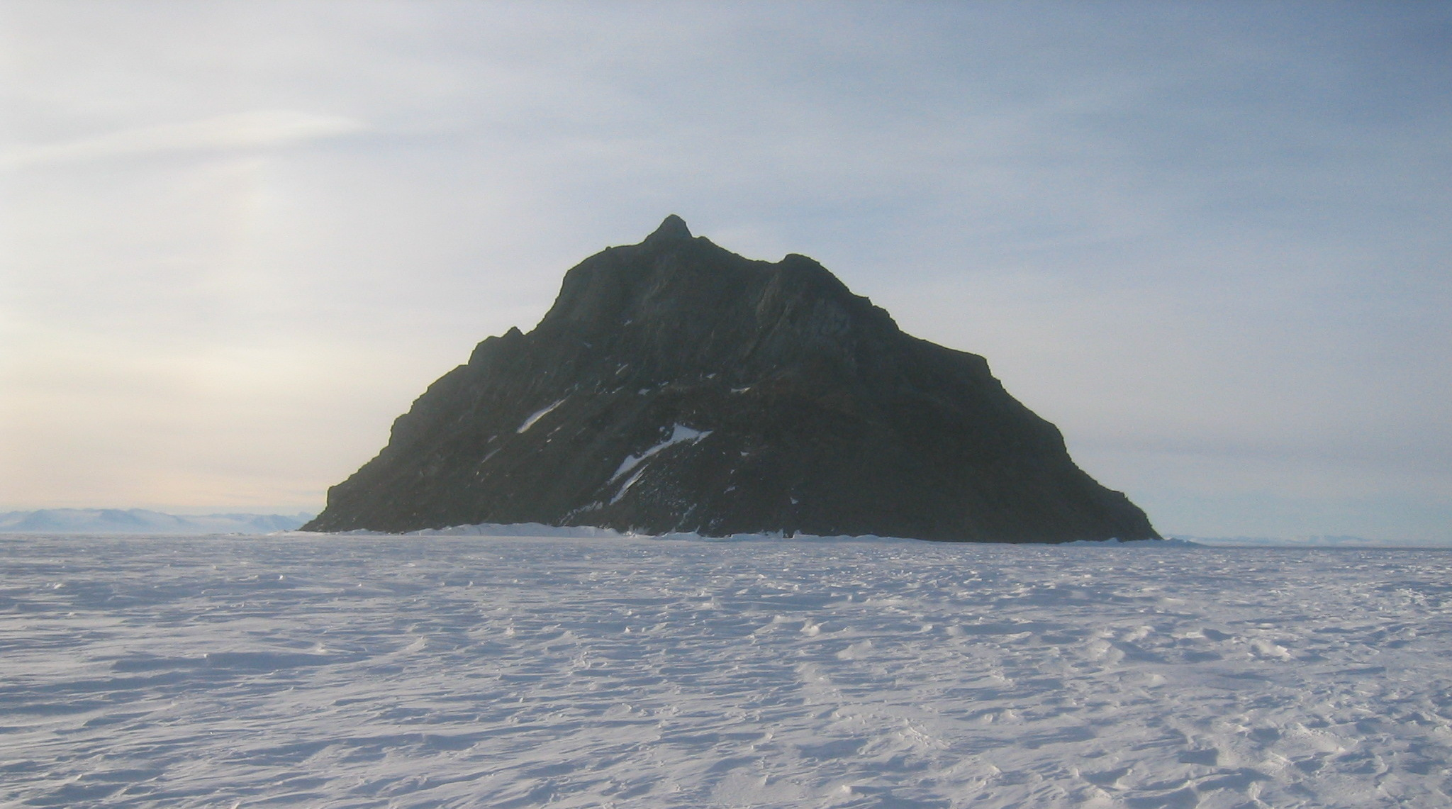 Inacessible Island, southwest of Cape Evans, Antarctica